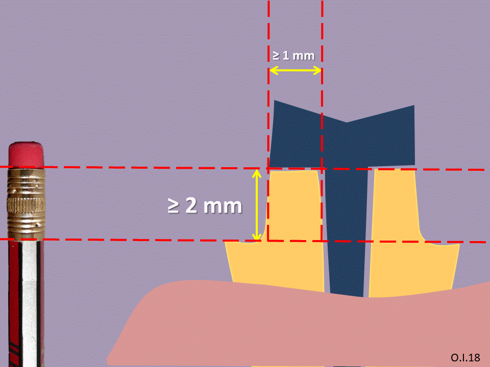 As with the bristles of a broom, which are grasped by a ferrule when attached to the broomstick, the crown should envelop a certain height of tooth structure to properly protect the tooth from fracture after being prepared for a crown. This has been established through multiple experiments as a mandatory continuous circumferential height of 2 mm; any less provides for a significantly higher failure rate of endodontically-treated crown-restored teeth. When a tooth is not endodontically treated, the remaining tooth structure will invariably provide the 2 mm height necessary for a ferrule, but endodontically treated teeth tend to be decayed and are often missing significant solid tooth structure. Because they are weaker after the additional removal of tooth structure that occurs during a root canal procedure, endodontically treated teeth require proper protection against vertical root fracture